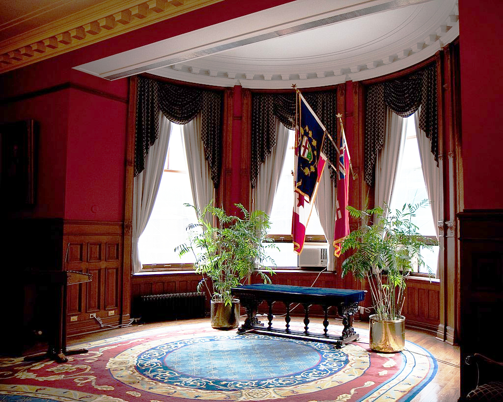 This room is where all legislation is signed into law for Ontario.